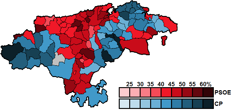 Most-voted party in Cantabria municipalities, showing vote share obtained, in the Spanish general election, 1986.